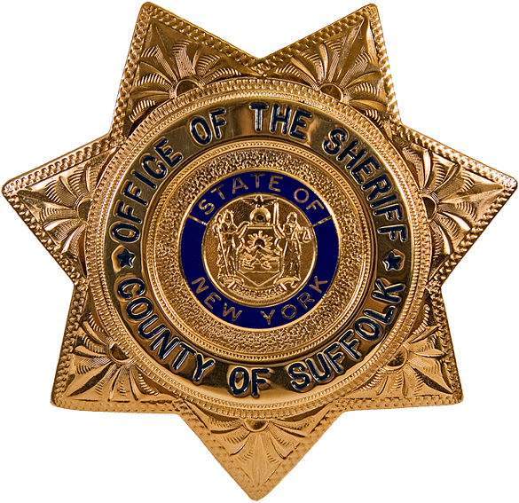 Image is similar if not identical to the badge of the Suffolk County Sheriff's Office, New York, utilizing generic lettering. Actual badges distiguish rank and division. Made with Photoshop.